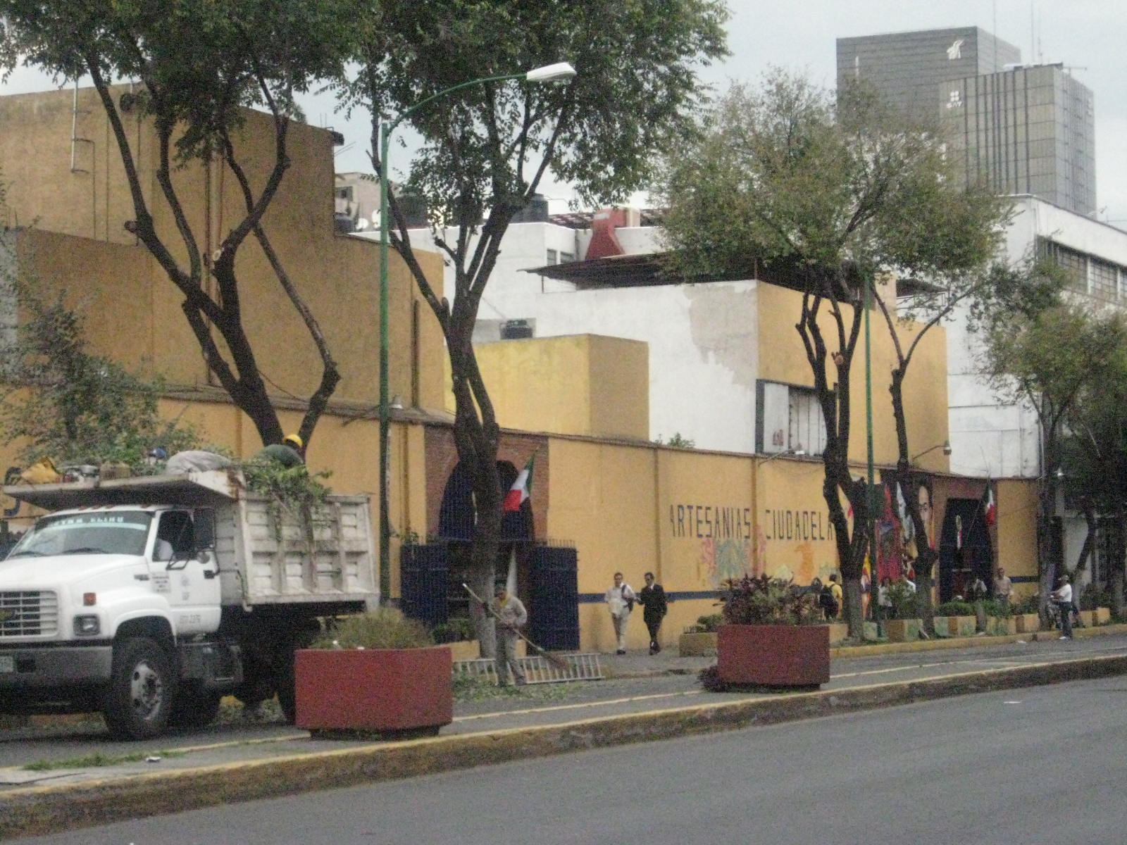 View of Artesanias (Handcrafts) Ciudadela Market located on Balderas street near Metro station Balderas